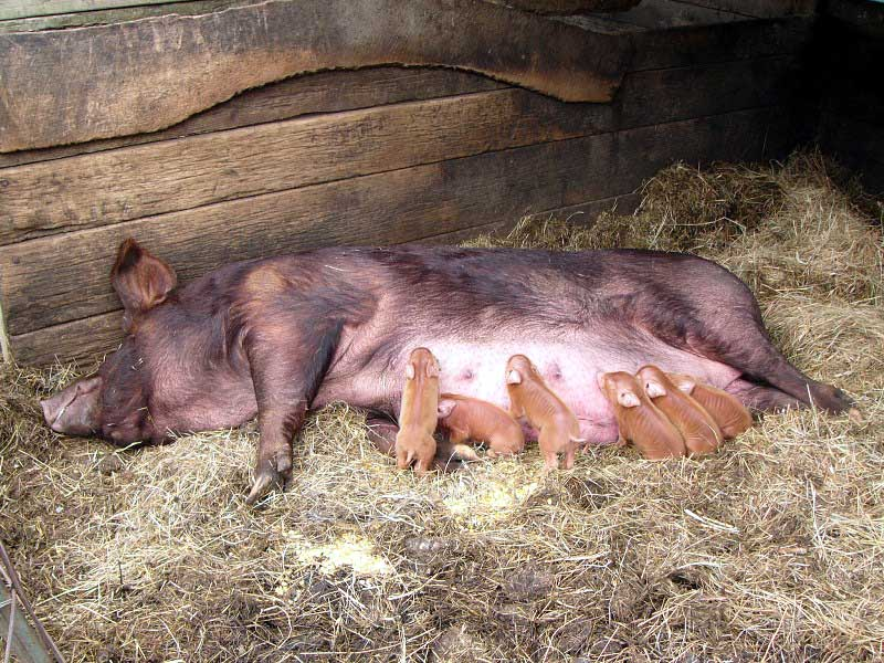 This photo was taken by myself, and is released into the public domain.